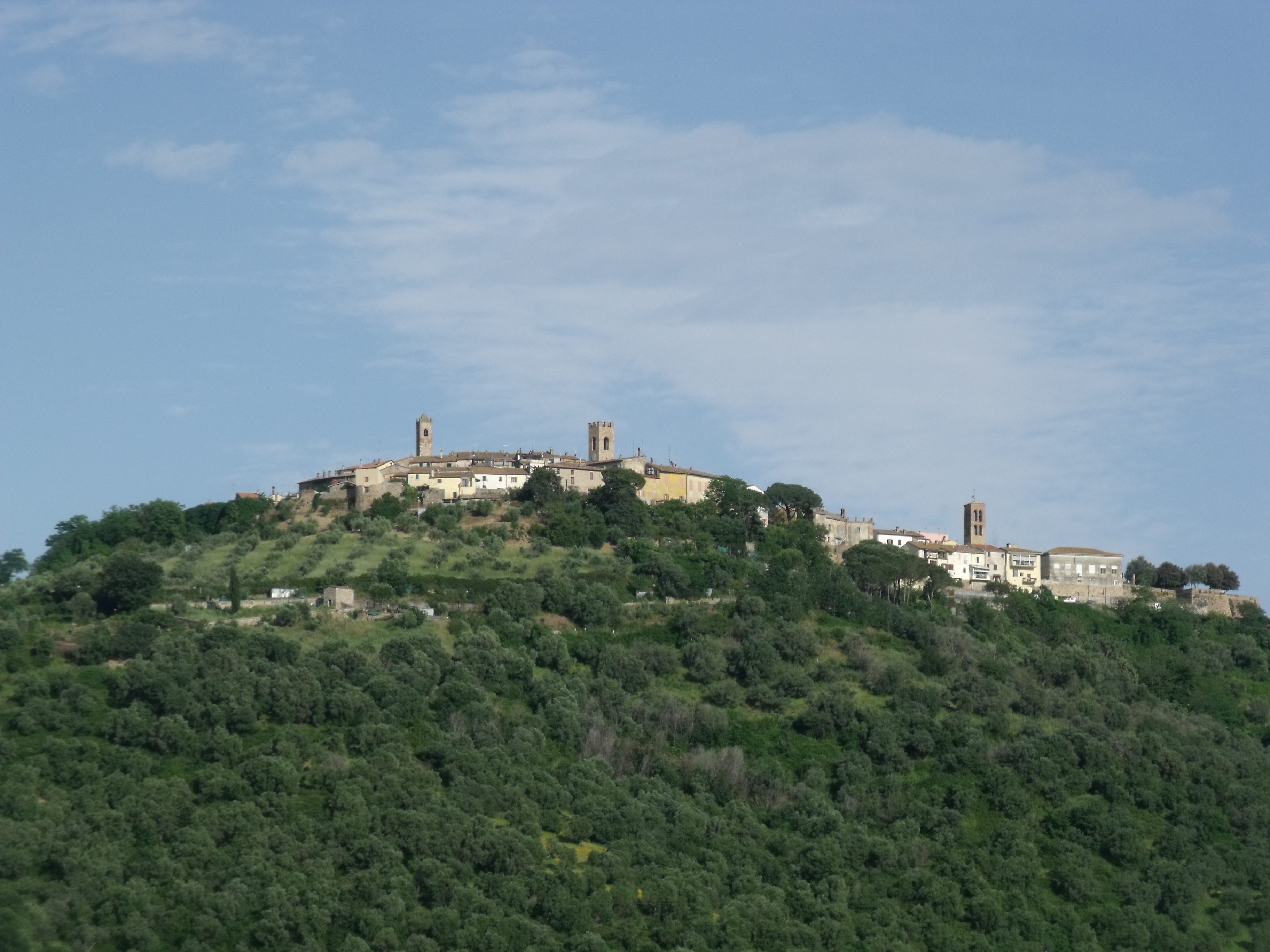 Panorama of Montepescali, hamlet of Grosseto, Maremma, Province of Grosseto, Tuscany, Italy (from left to right: Campanile Church of San Niccolò, Clock tower of the Cassero, Campanile of the Church Santi Stefano e Lorenzo, Baluardo a tre punte)